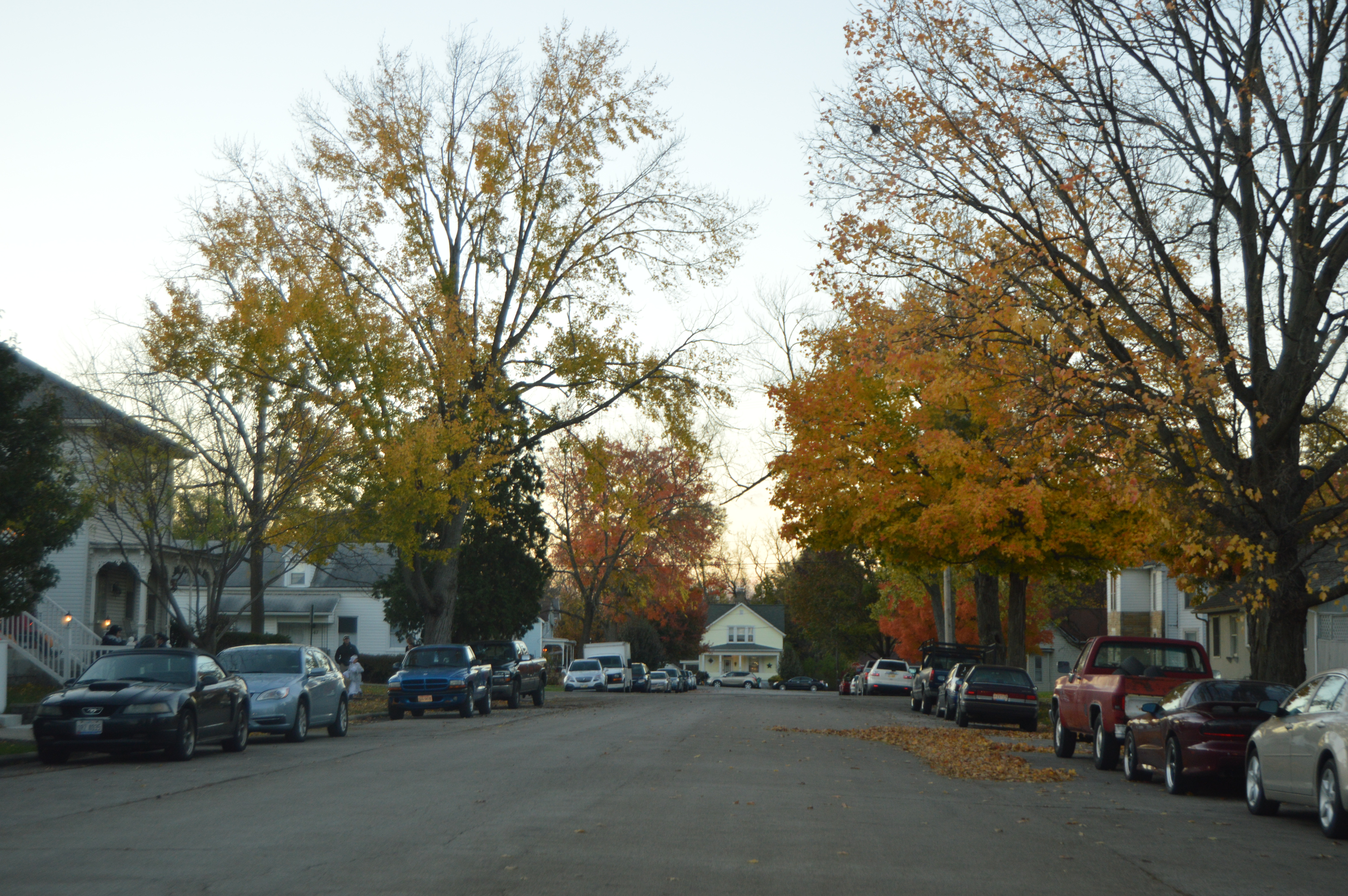 Looking northwest on Market Street from the Lock Street intersection in Carroll, Ohio, United States.